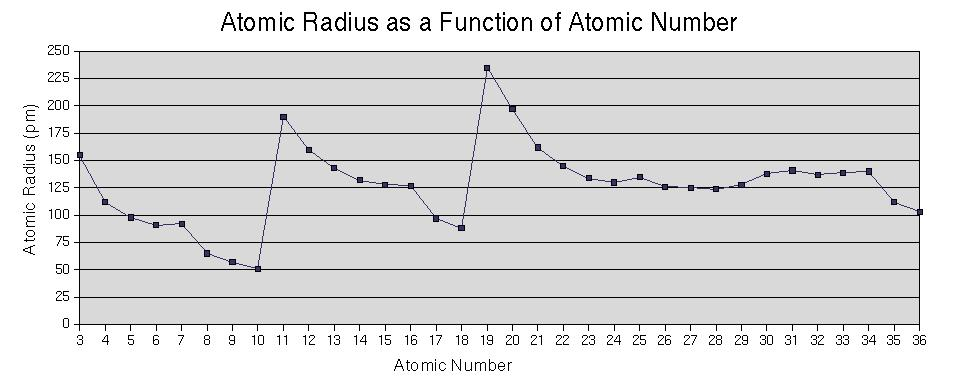 Created with OpenOffice Calc 2.0.1 by Joseph Zullo and Thomas Levine